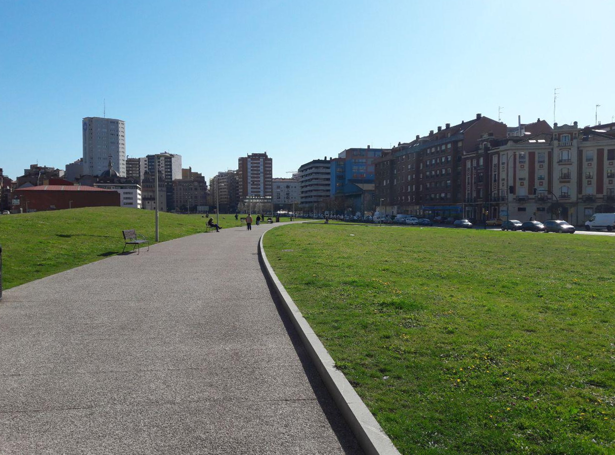 A picture of the "Jardines del Tren de la Libertad", placed in Gijón